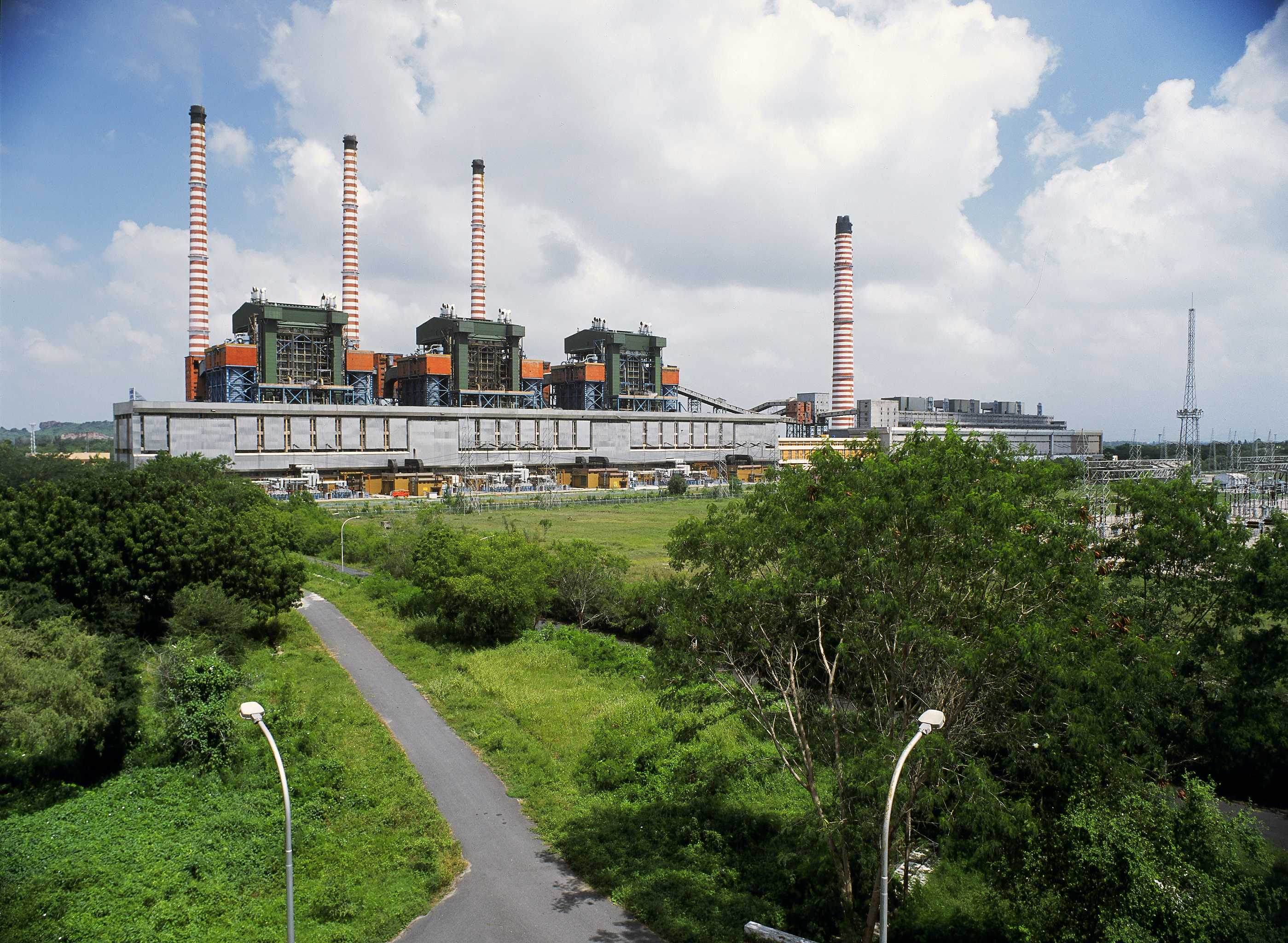 NTPC Ramagundam, a Thermal Power Station based in Karimnagar District of the Indian state of Telangana.